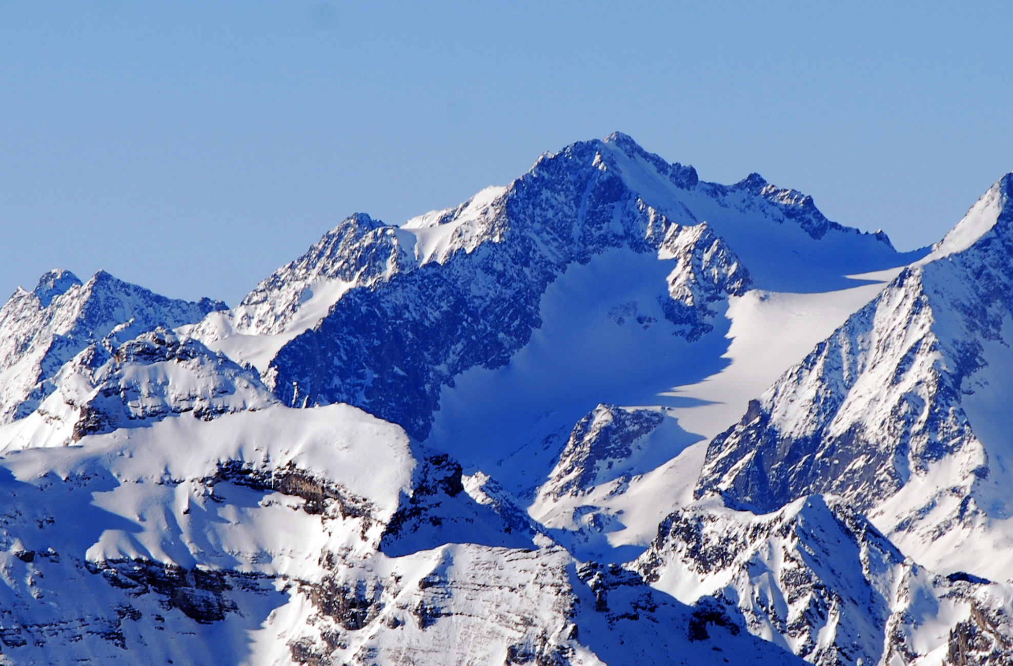 Ruderhofspitze (2473m) seen from east (Schafseitenspitze)